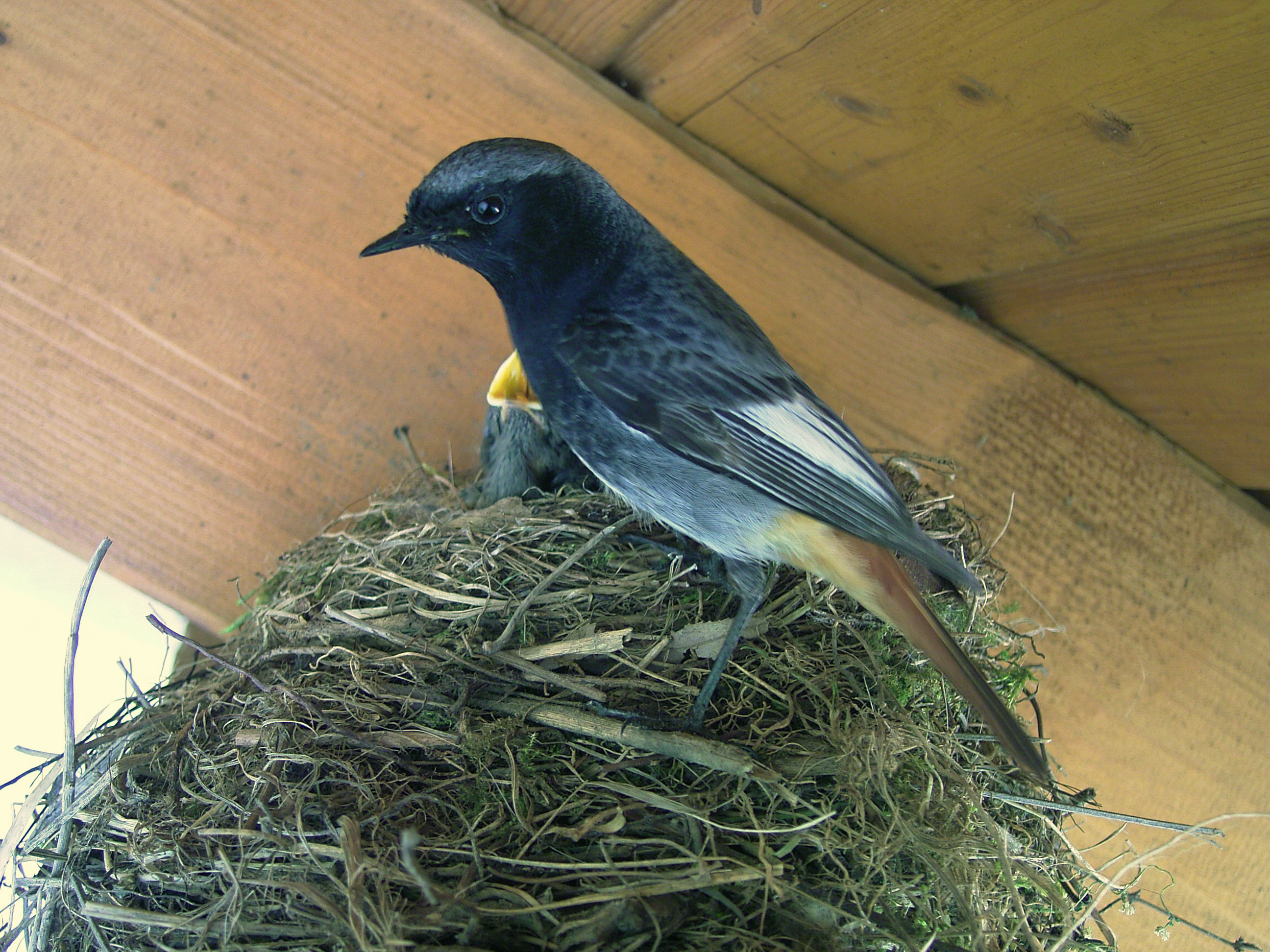 A Parent Bird at the NestSee also overall description below